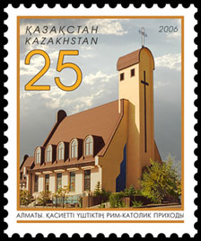 Stamp of Kazakhstan